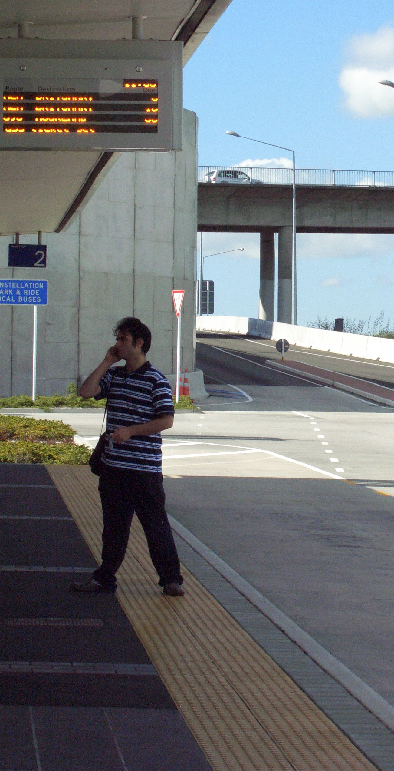 Auckland's Northern Busway adjacent to the Northern Motorway, State Highway 1. Constellation Park and Ride station. Typical station layout showing express platform with overbridge for adjacent street, tactile pavement for sight-impaired users, bus service indicator. The busway can be seen heading south, separated from the motorway by a concrete barrier.